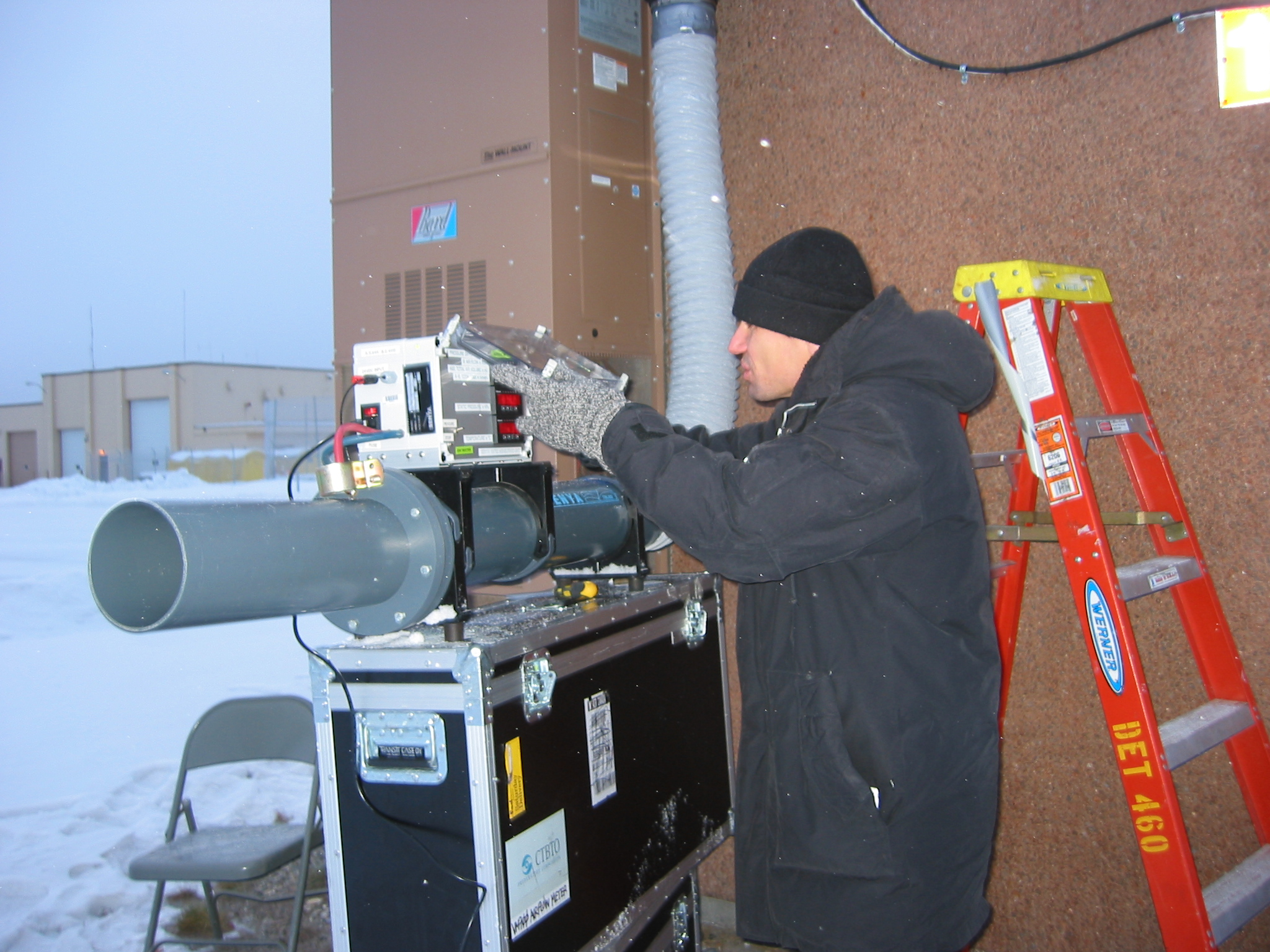 Conducting air flow measurements at radionuclide station RN76,Salchalet, USA. Copyright CTBTO Preparatory Commission